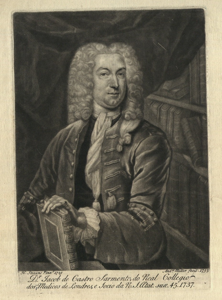 Portrait of Jacob de Castro Sarmento, in Theorica Verdadeira das Mares